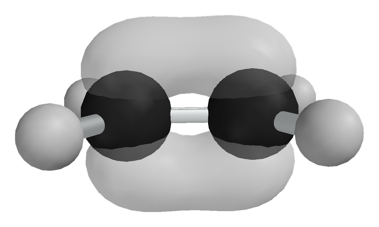 Space-filling model of the HOMO of ethylene. Iso value = 0.120. Structure calculated and image produced using HF/6-31G* in Spartan '04 Student Edition.